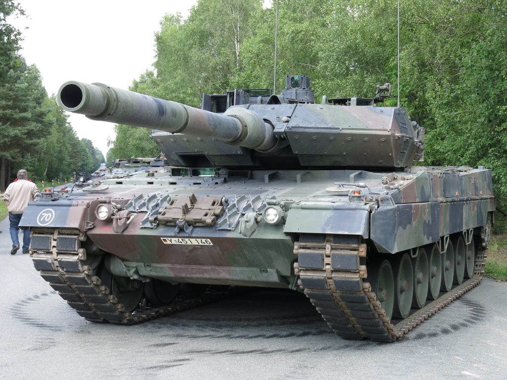 Leopard 2 A7, German Army Training Centre, Munster 2015